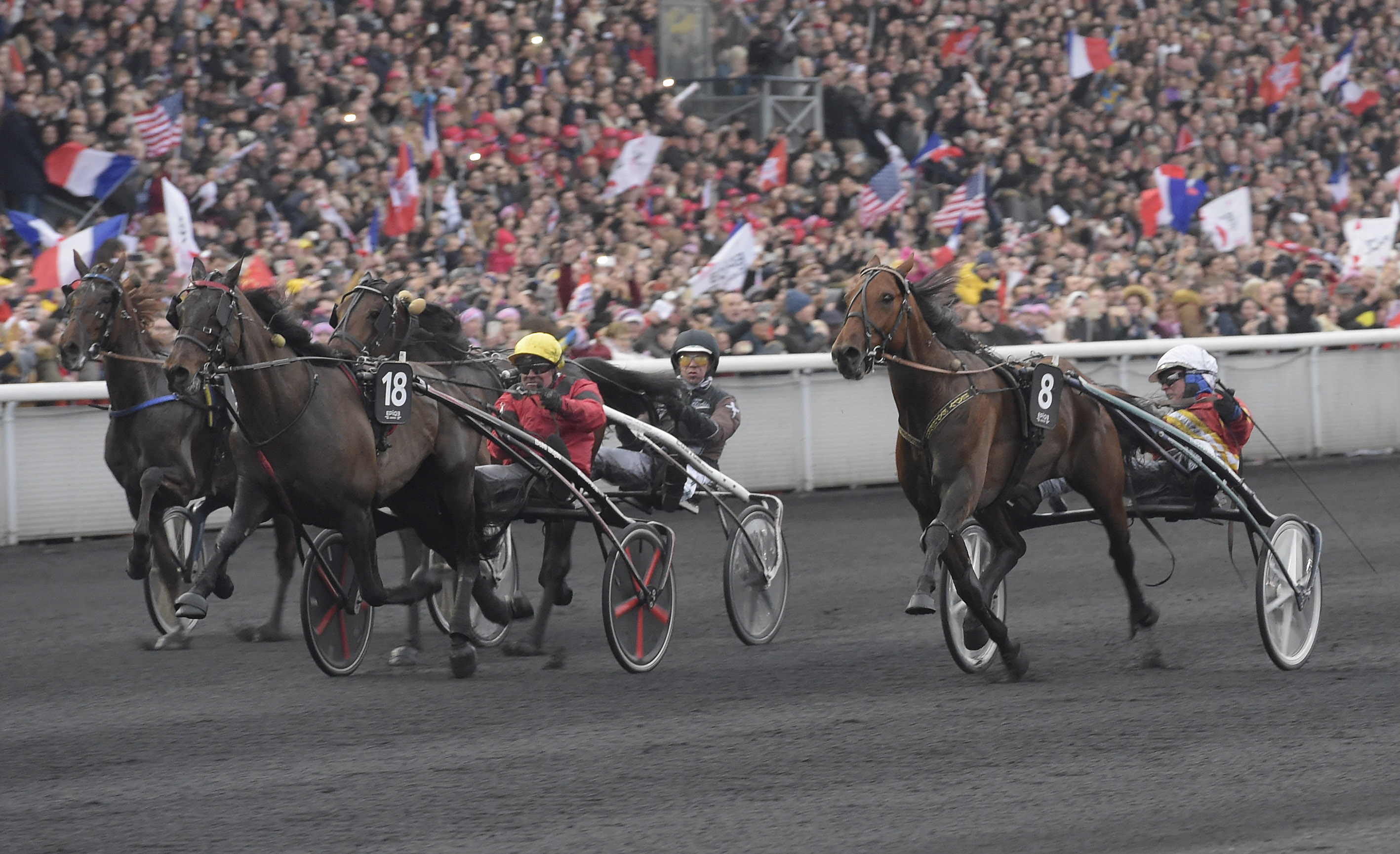 Bold Eagle and Readly Express at Prix d'Amerique 2018.